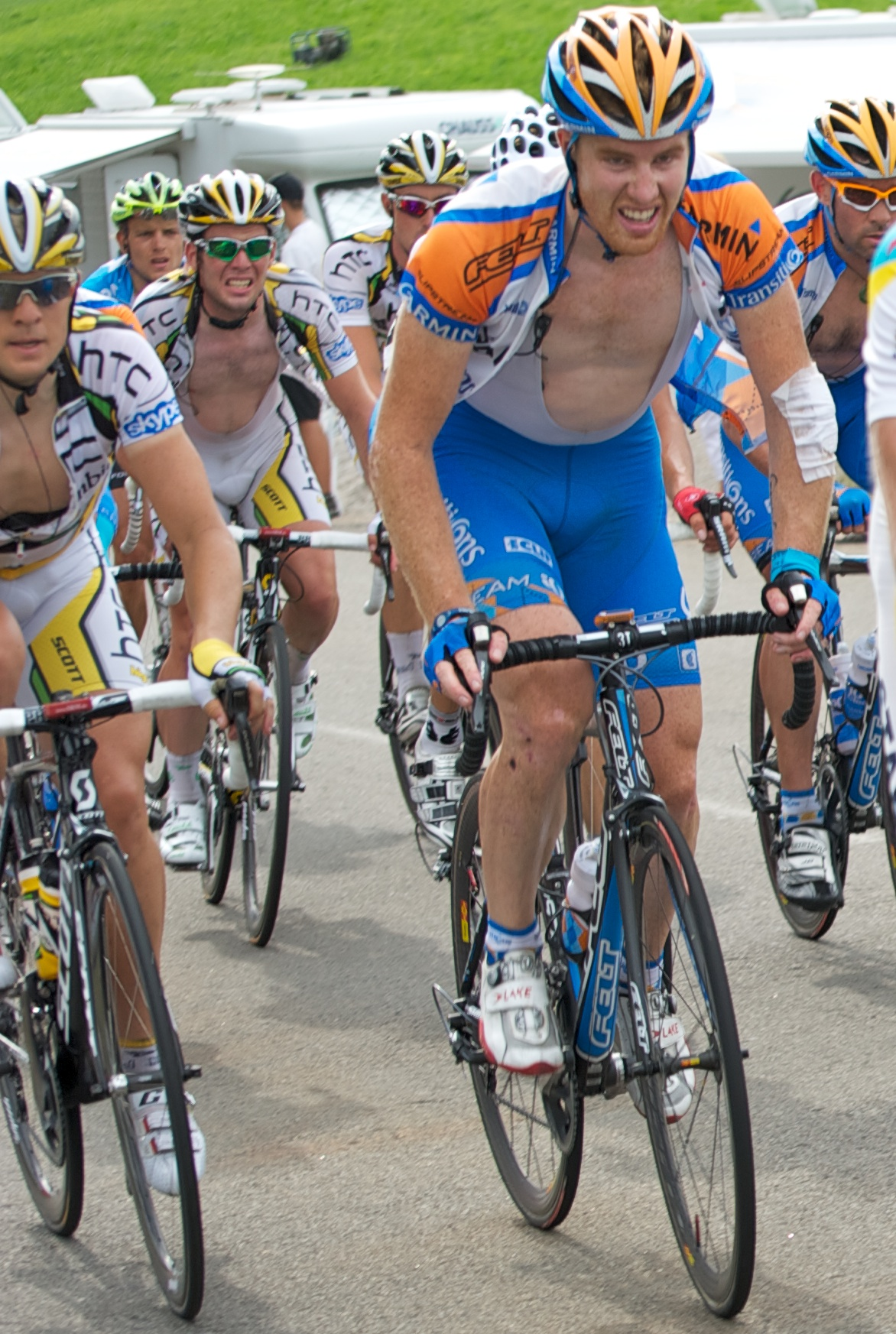 And here, in the back, are the sprinters and other non-climbers toiling up the hills in an attempt to finish inside the cutoff time. I believe that's Tyler Farrar on the front, and In the back you can see Mark Cavendish making it clear just how much he hates going uphill. (Can't say I blame him. I do too.)